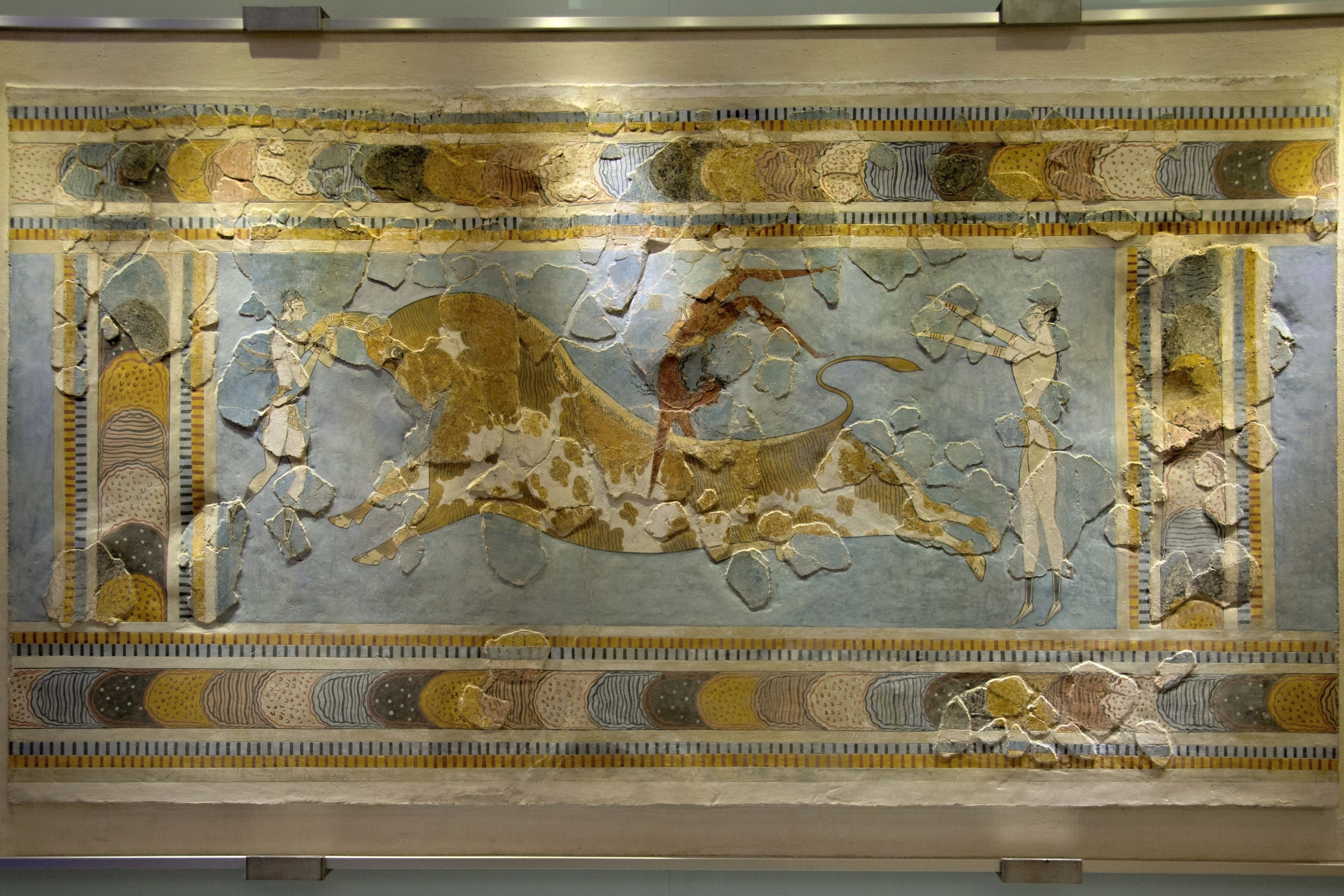 Bull leaping, large Minoan fresco. Knossos, 1600-1450 BC. Archaeological Museum of Heraklion.